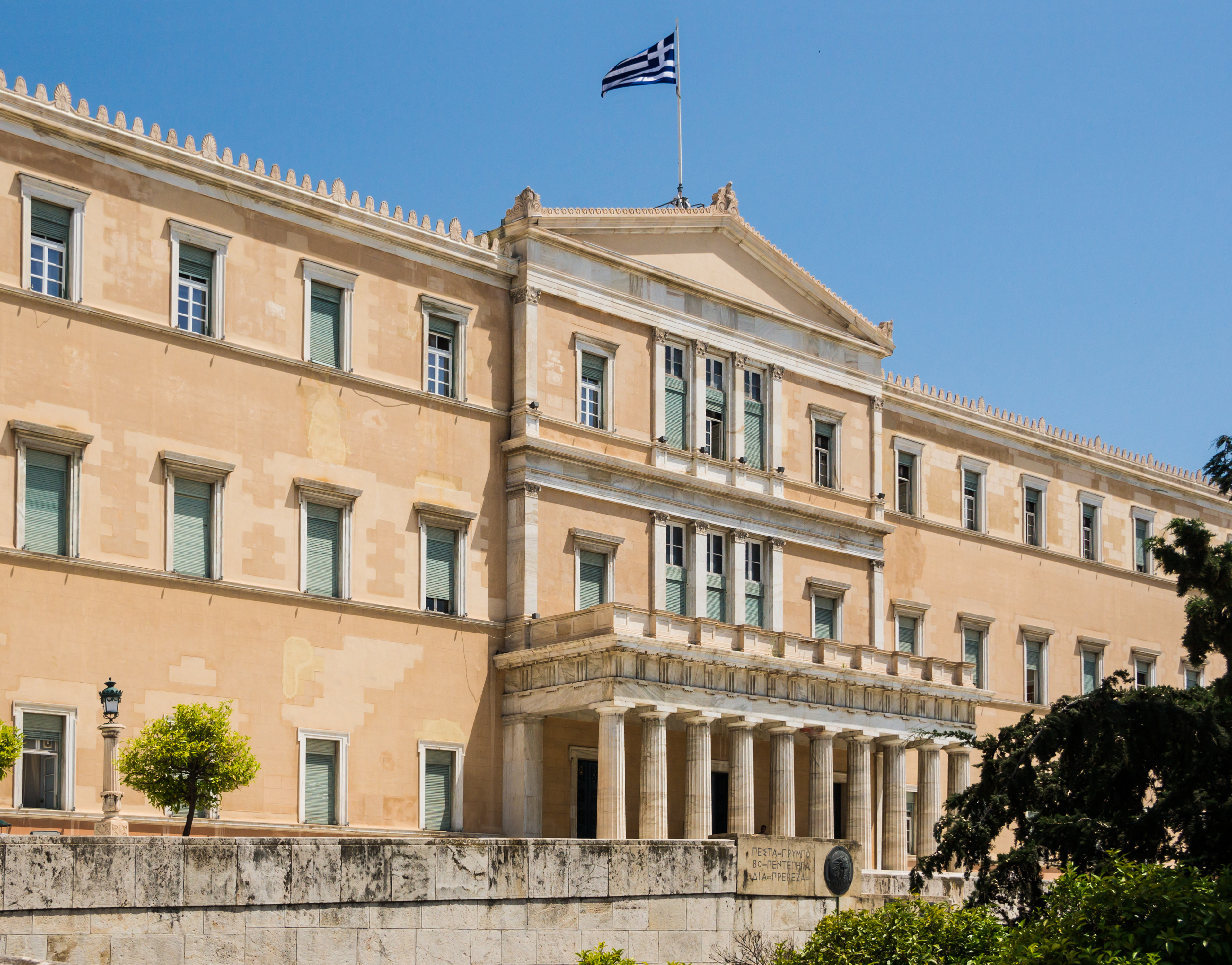 Detail of the main facade of the building of the Hellenic Parliament, Athens, Greece.